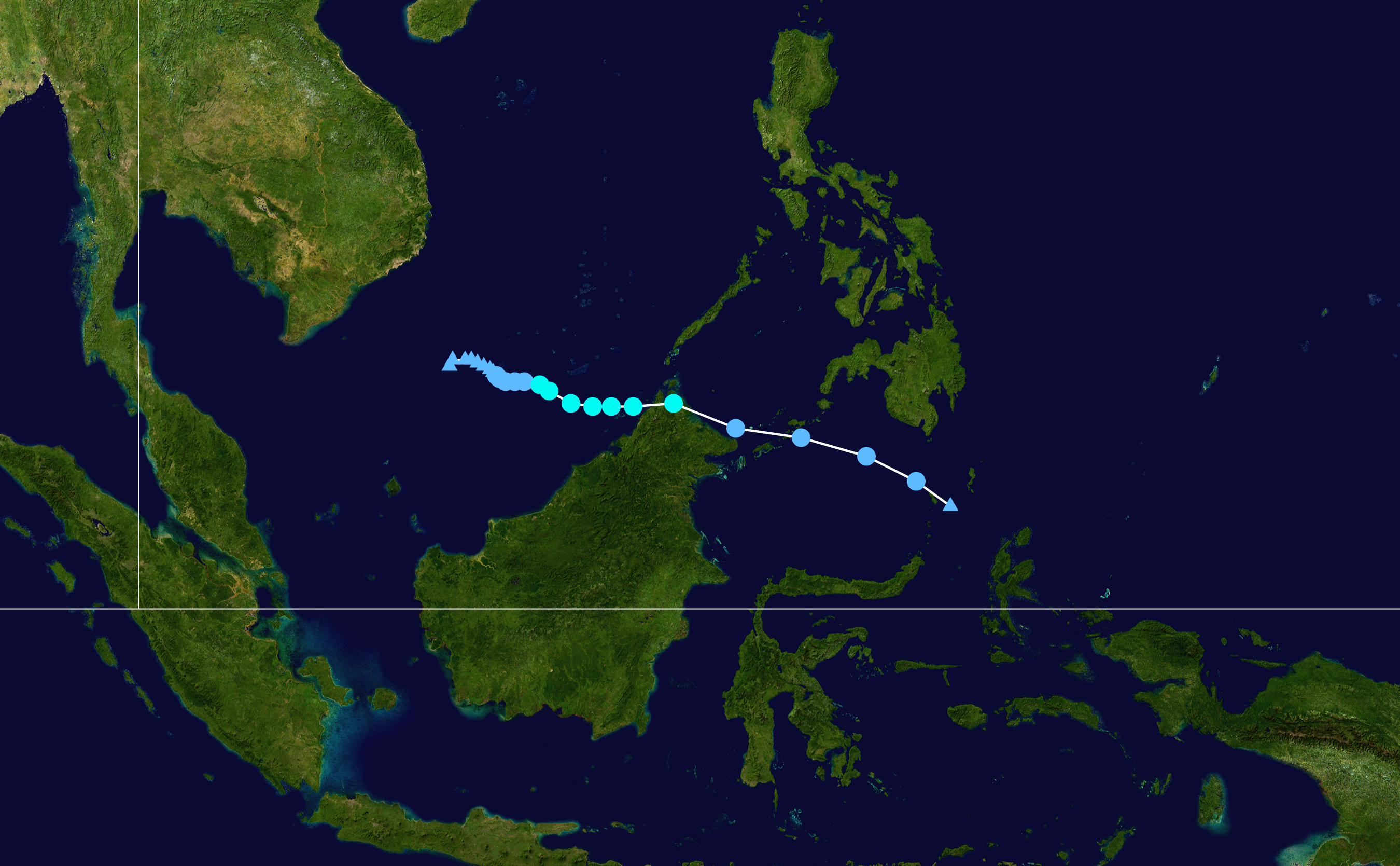 Tropical Storm Greg 1996 track. Uses the color scheme from the Saffir-Simpson Hurricane Scale.